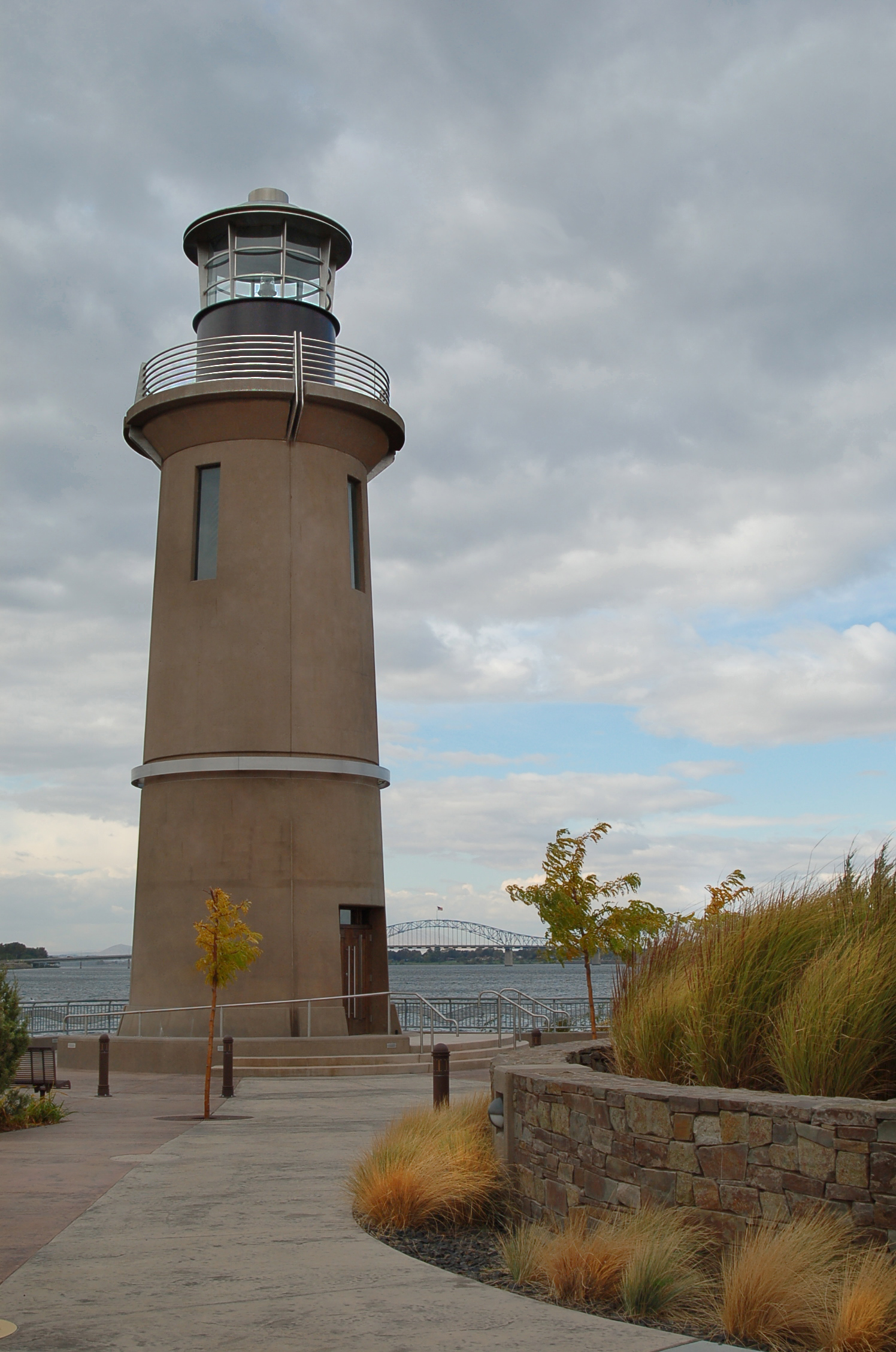 Overlooking the Columbia River, the Clover Island Lighthouse in Kennewick, Washington, is the first lighthouse to be built in the United States since 1962. Photo Credit: Brian Gomez